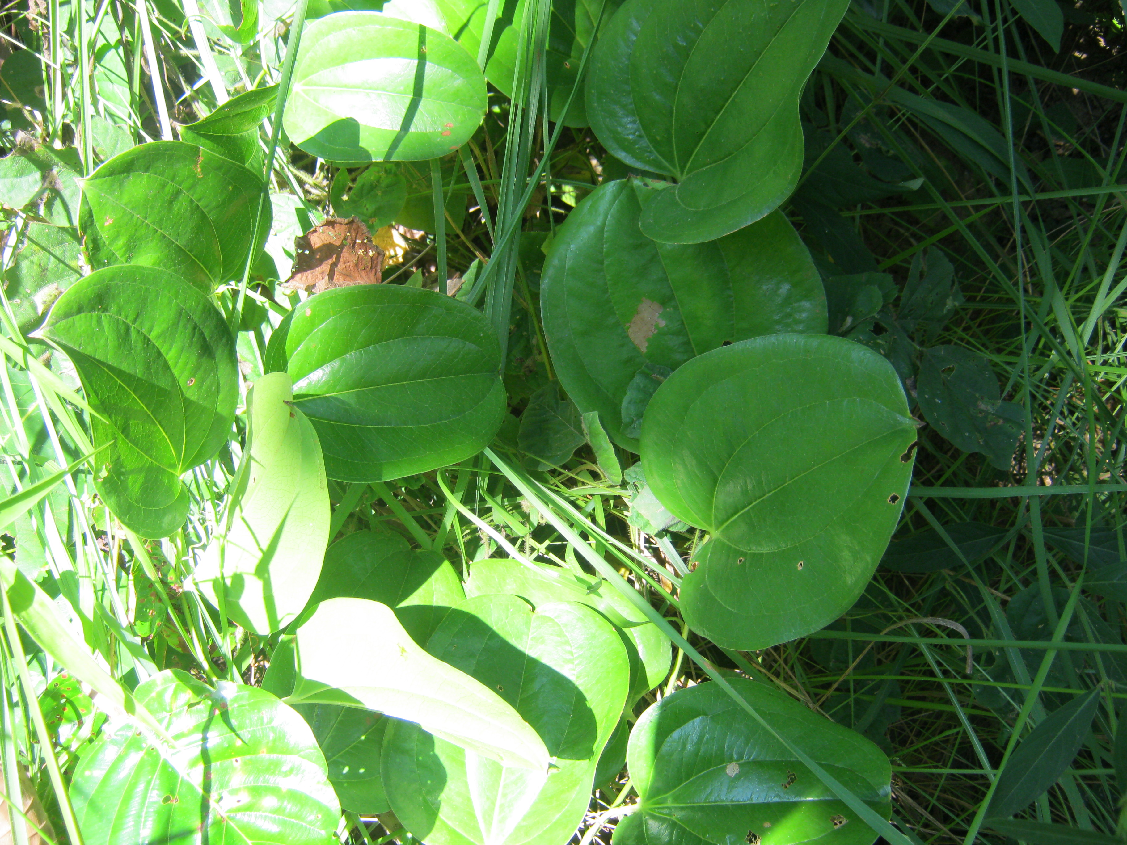 Smilax zeylanica plant in Panchkhal Valley Nepal.